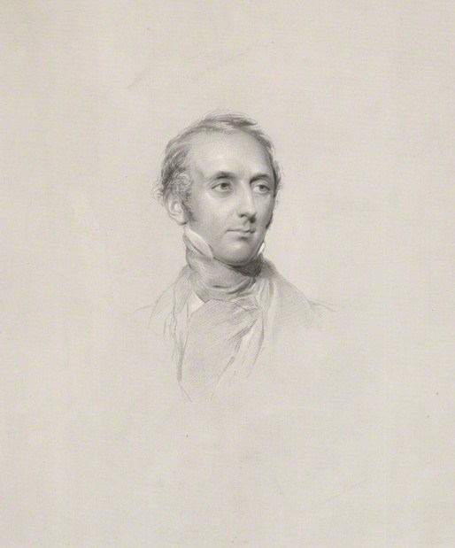 Portrait of Charles Aston Key (1793–1849), English surgeon.